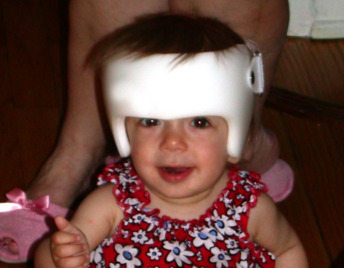 An image of a cranial band